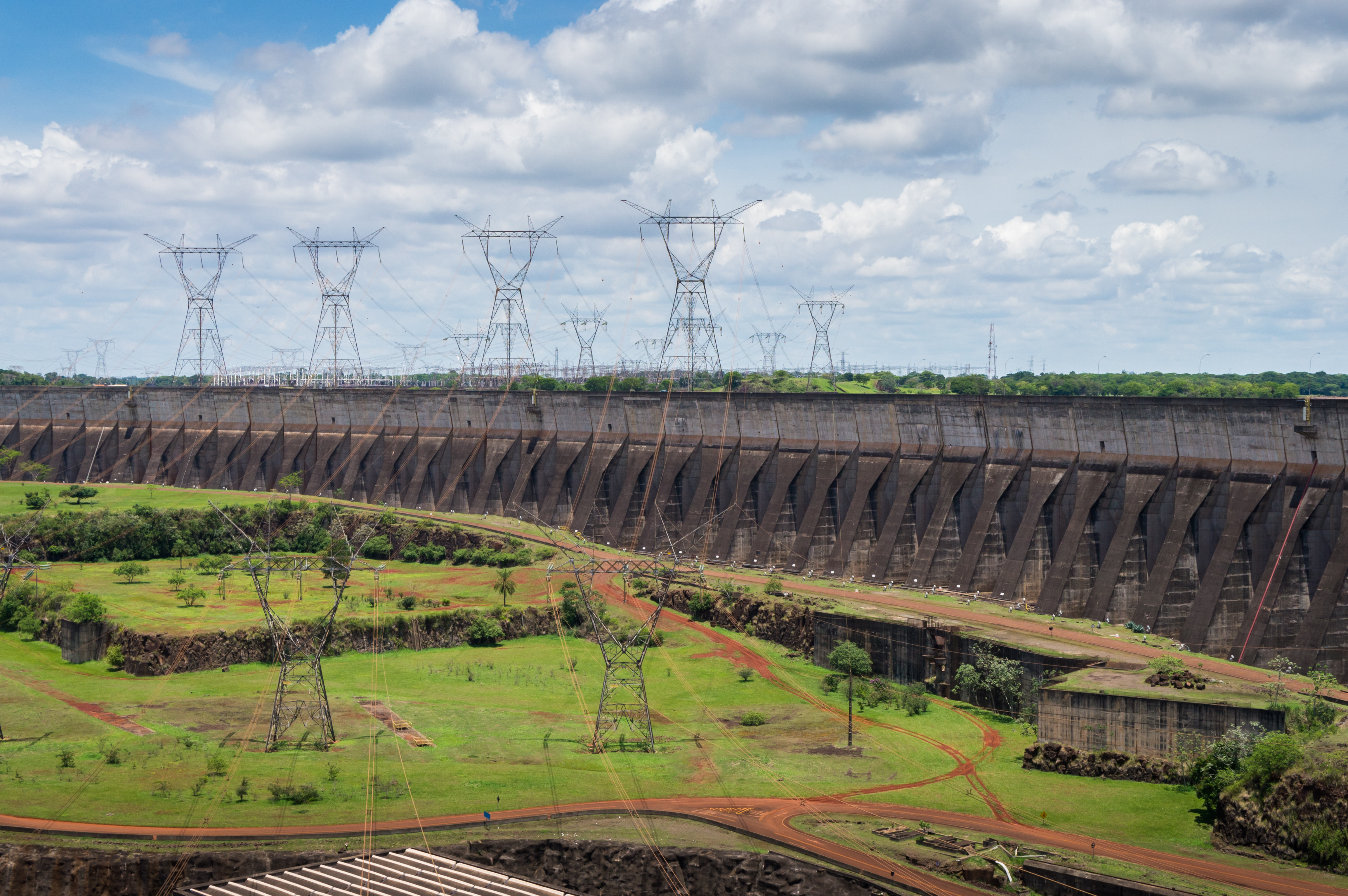 The Itaipu Dam (Guarani: Presa Itaipu